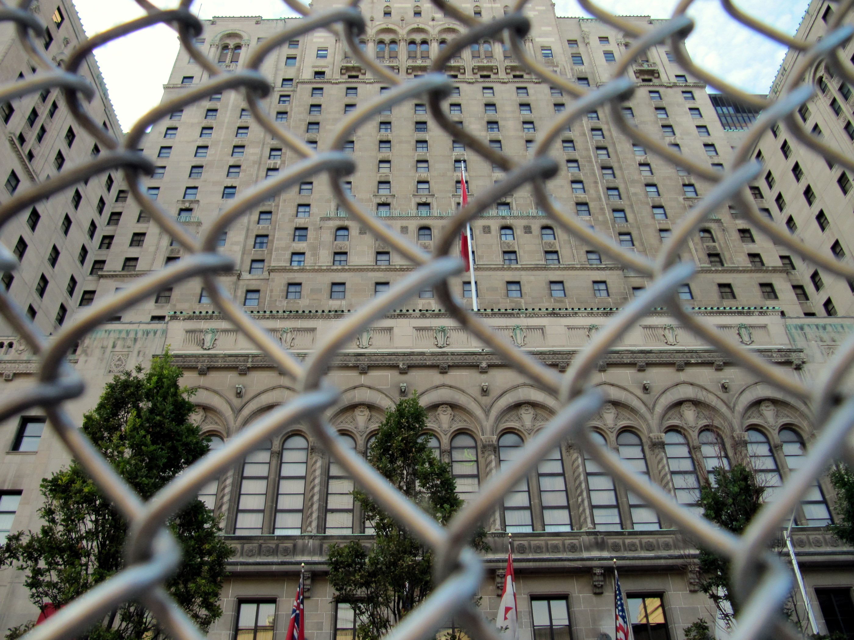 They Royal York hotel is inside the G20 security perimeter, which I guess means nobody but world leaders will be allowed to stay there this weekend.